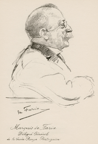 António Cândido de Portugal de Faria, Marquis of the Holy Roman Church